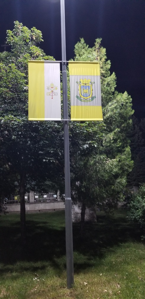 Bulgaria Square in Rakovski